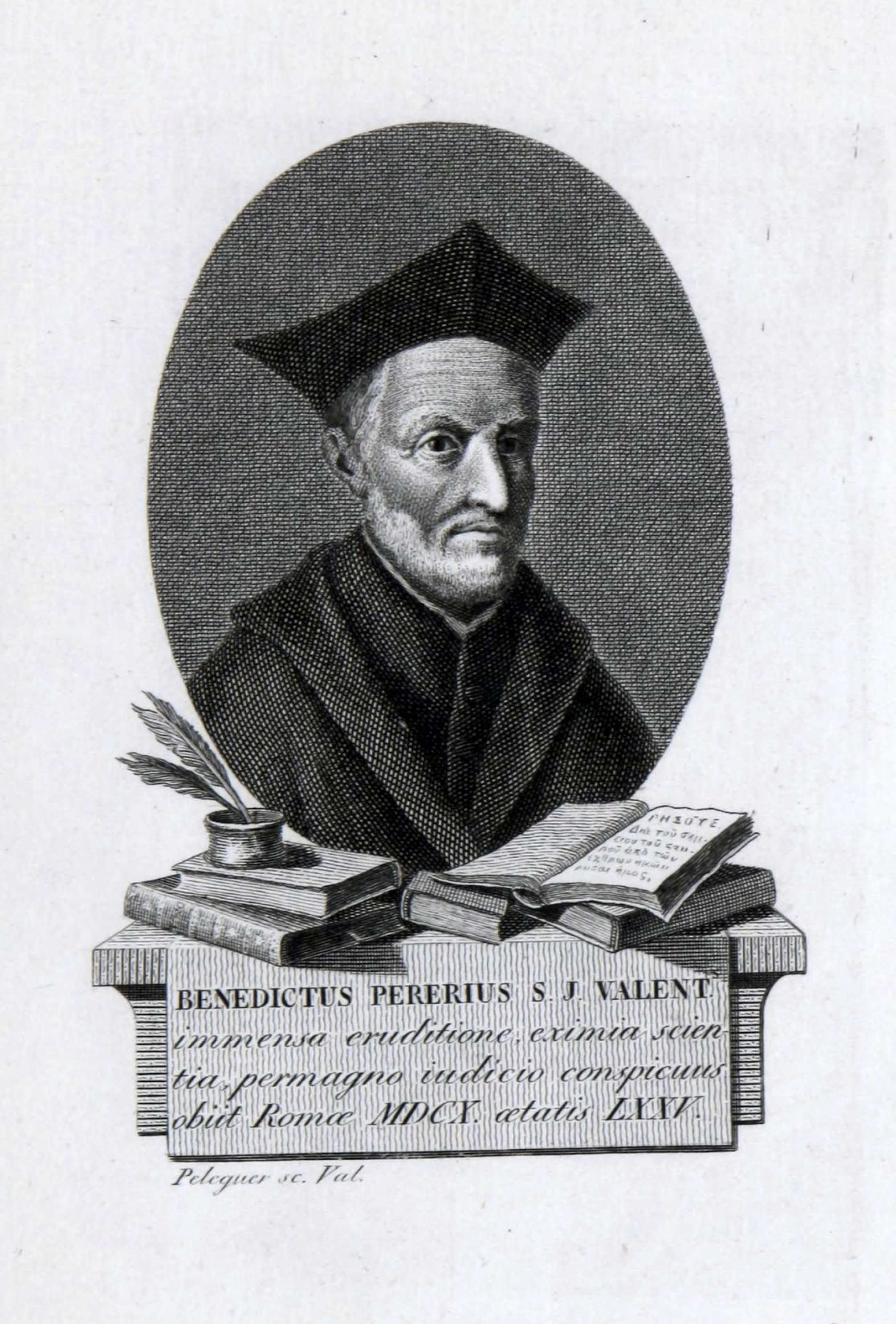 Portrait of Benedict Pereira, from the collection "Retratos de españoles" (ca. 1831). Historical Library of the University of Valencia